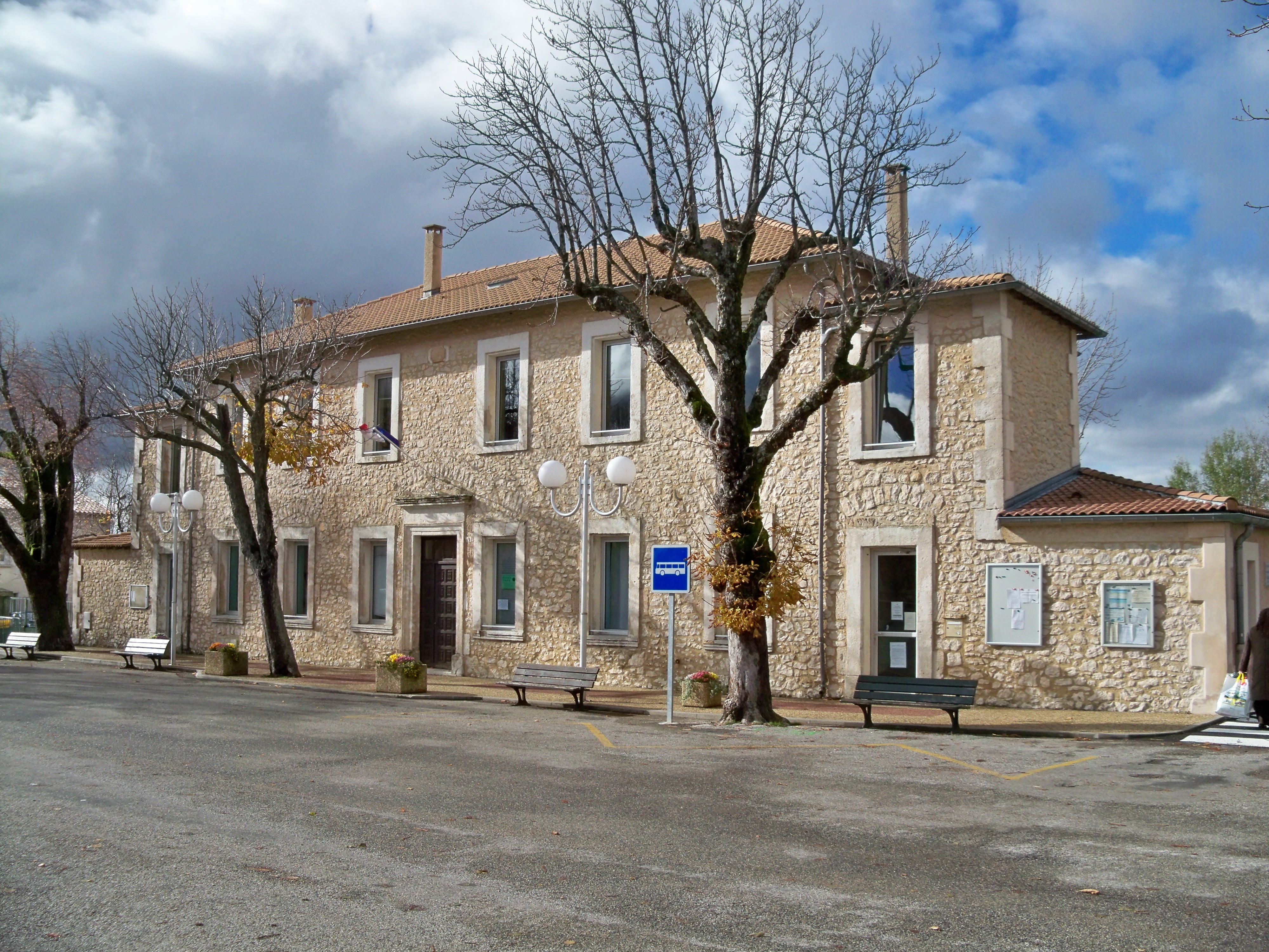 Town hall of Revest du Bion, Alpes de Haute Provence, France